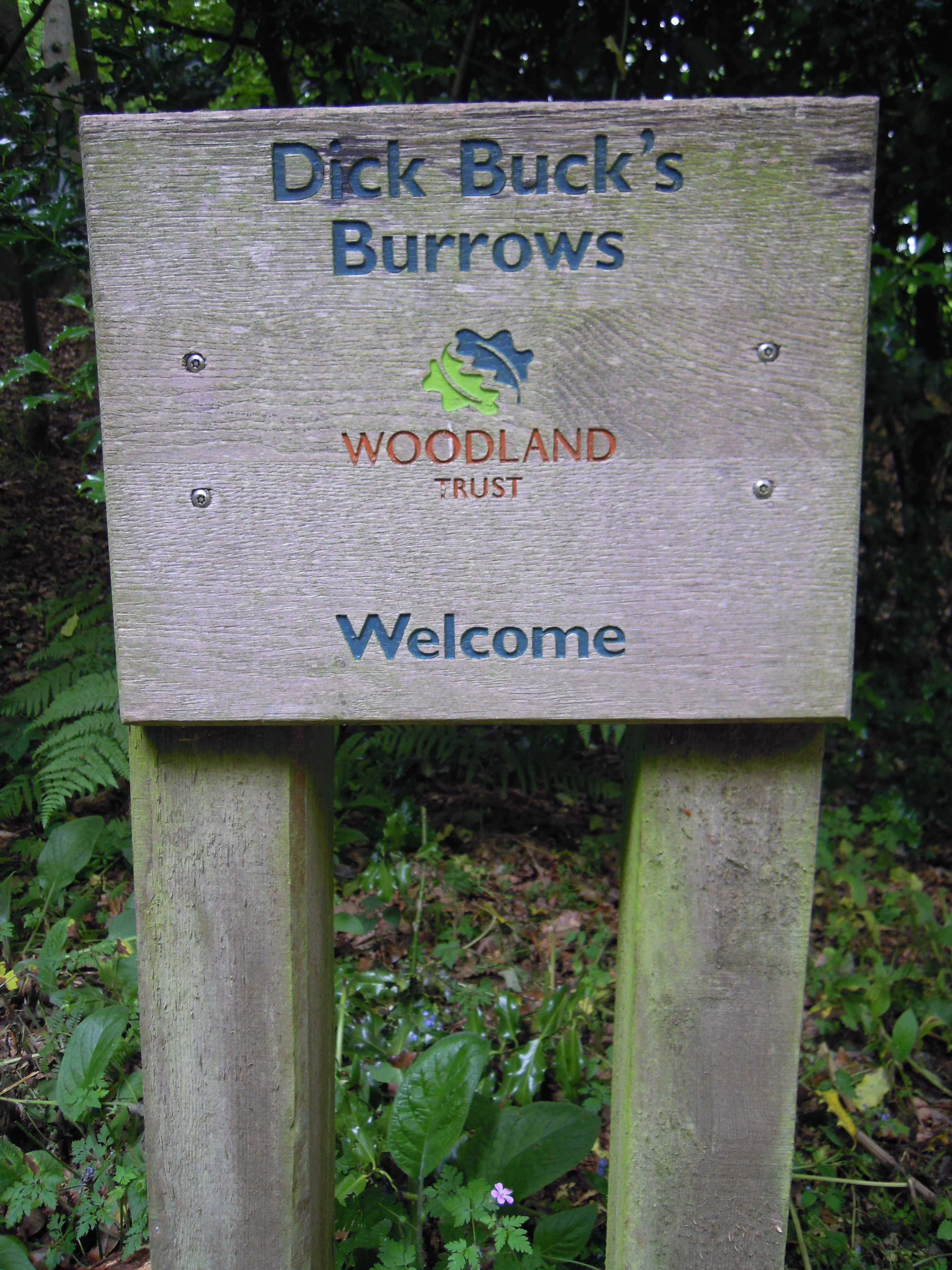 The Woodlands Trust, Dick Buck’s Burrows, near Cromer in Norfolk, United Kingdom